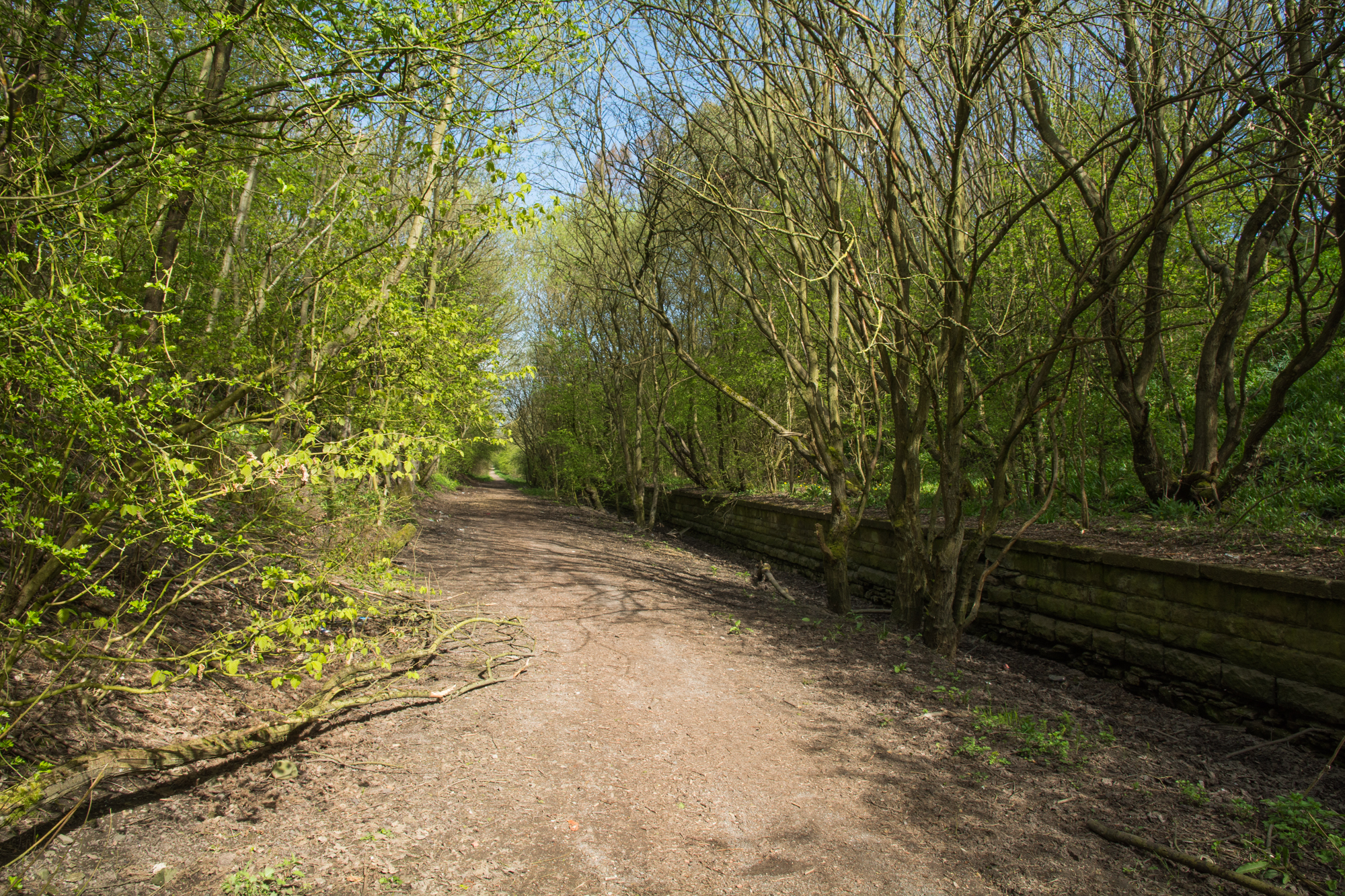 Low walling beside Haswell to Hart route. Site of Shotton Bridge station.